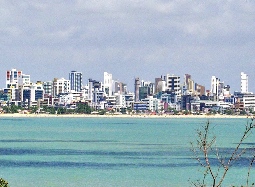 João Pessoa - Paraíba - Brazil